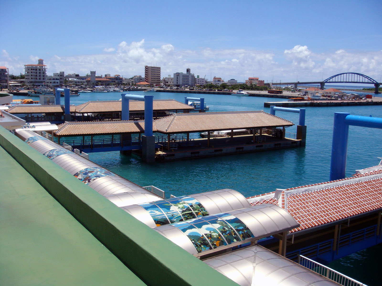 Ishigaki Ritoh Terminal, Ishigaki City, Okinawa Prefecture, Japan